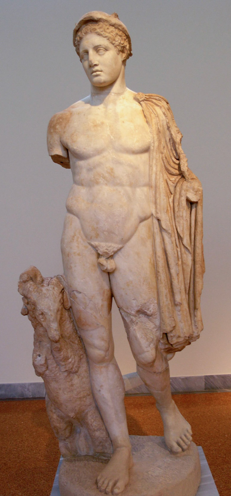 Hermes Criophorus (Ram-Bearer) from Troezene. Pentelic marble, Roman copy of the 2nd century CE after a Greek original of the 5th century BC (museum description) or a Roman free adaptation of the Doryphoros type (Legrand).